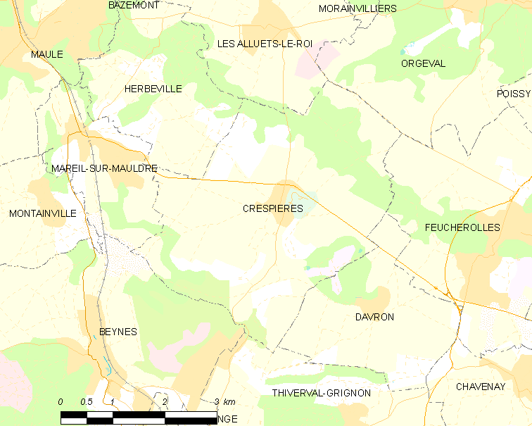 Map of French municipality Crespières